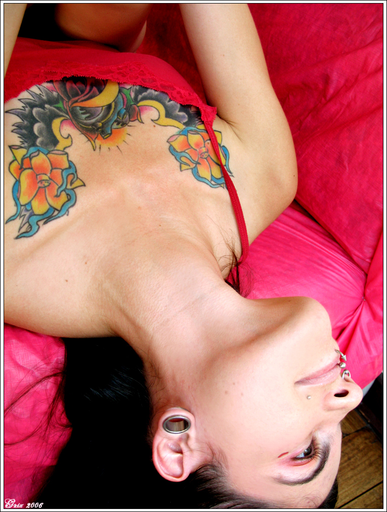 Various piercings and tatoos on a person